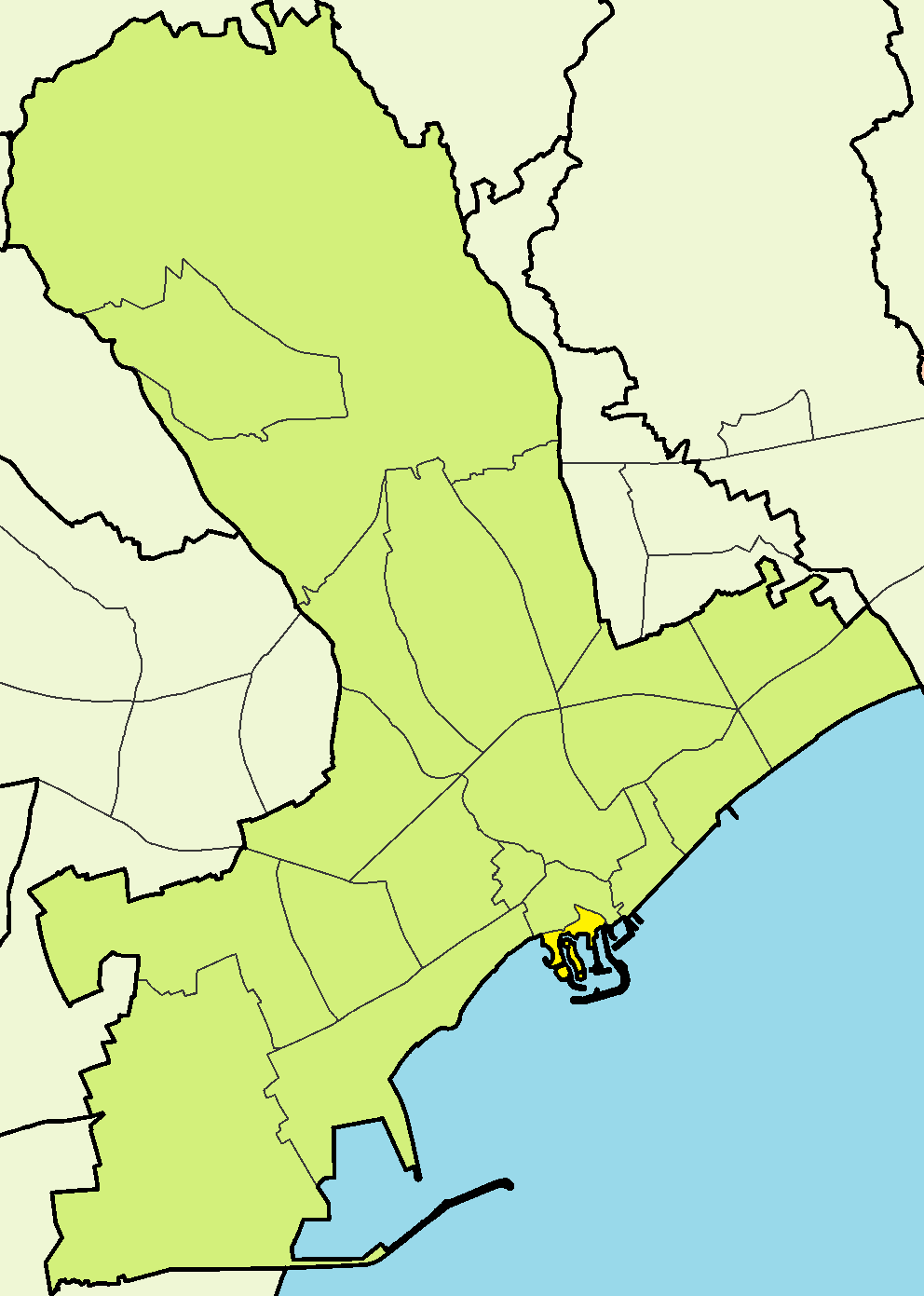 Agios Antonios in Limassol Municipality